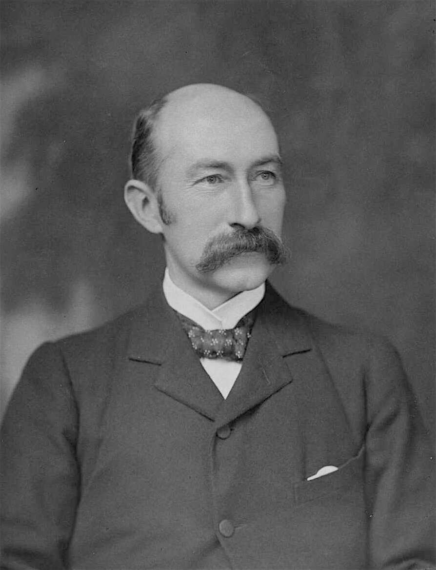 Portrait of H. B. Higgins, 1851-1929, Victorian federation leader and President of Arbitration Court.